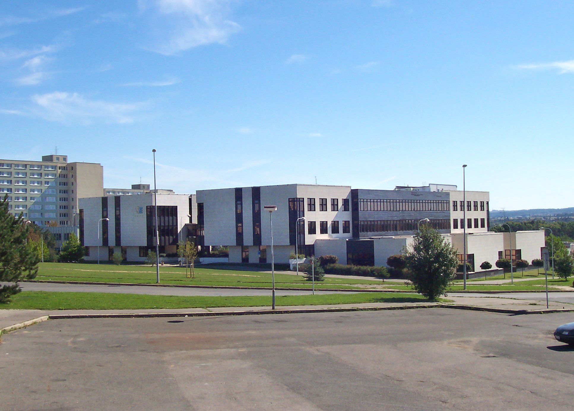 University of Economics at Ekonomická street in Kunratice, Prague